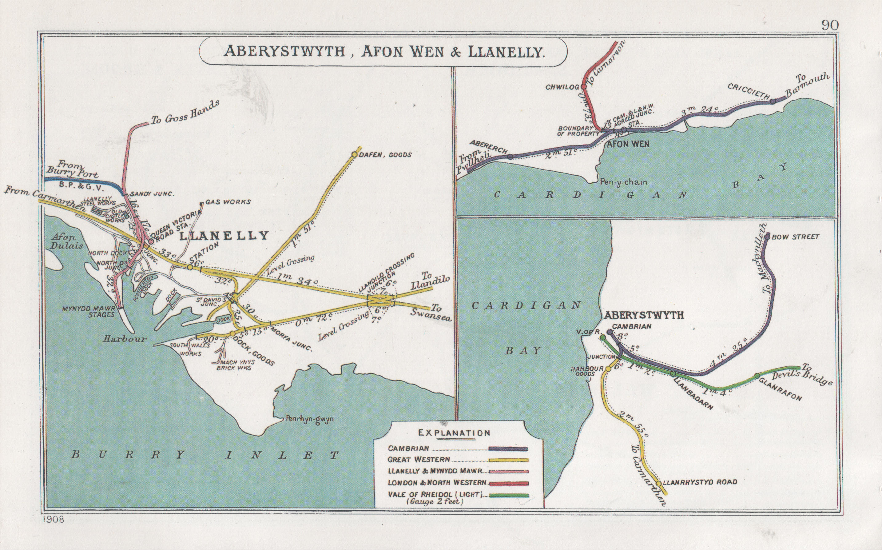 Pre Grouping railway junction around Aberystwyth, Afon Wen & Llanelly